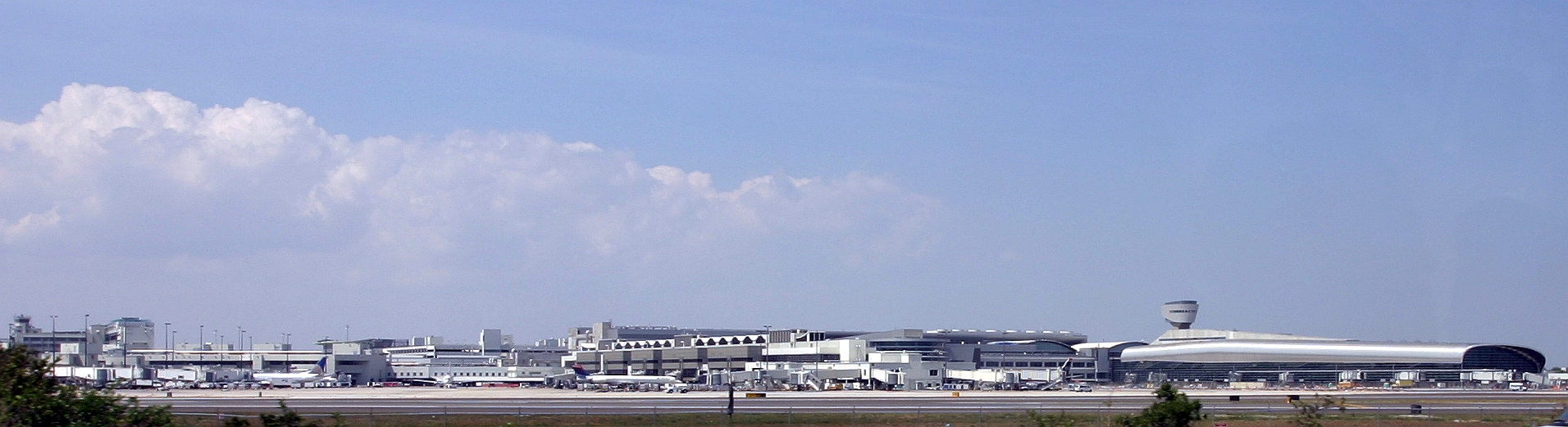 Miami International Airport seen from the south.